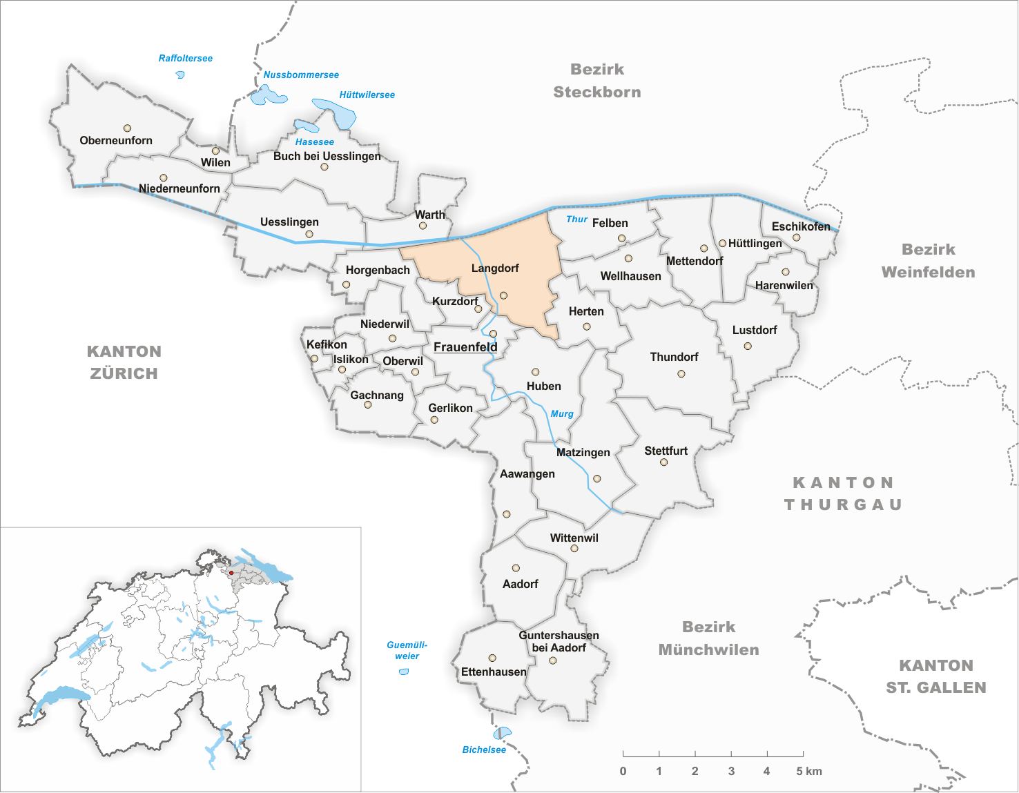 Municipality Langdorf